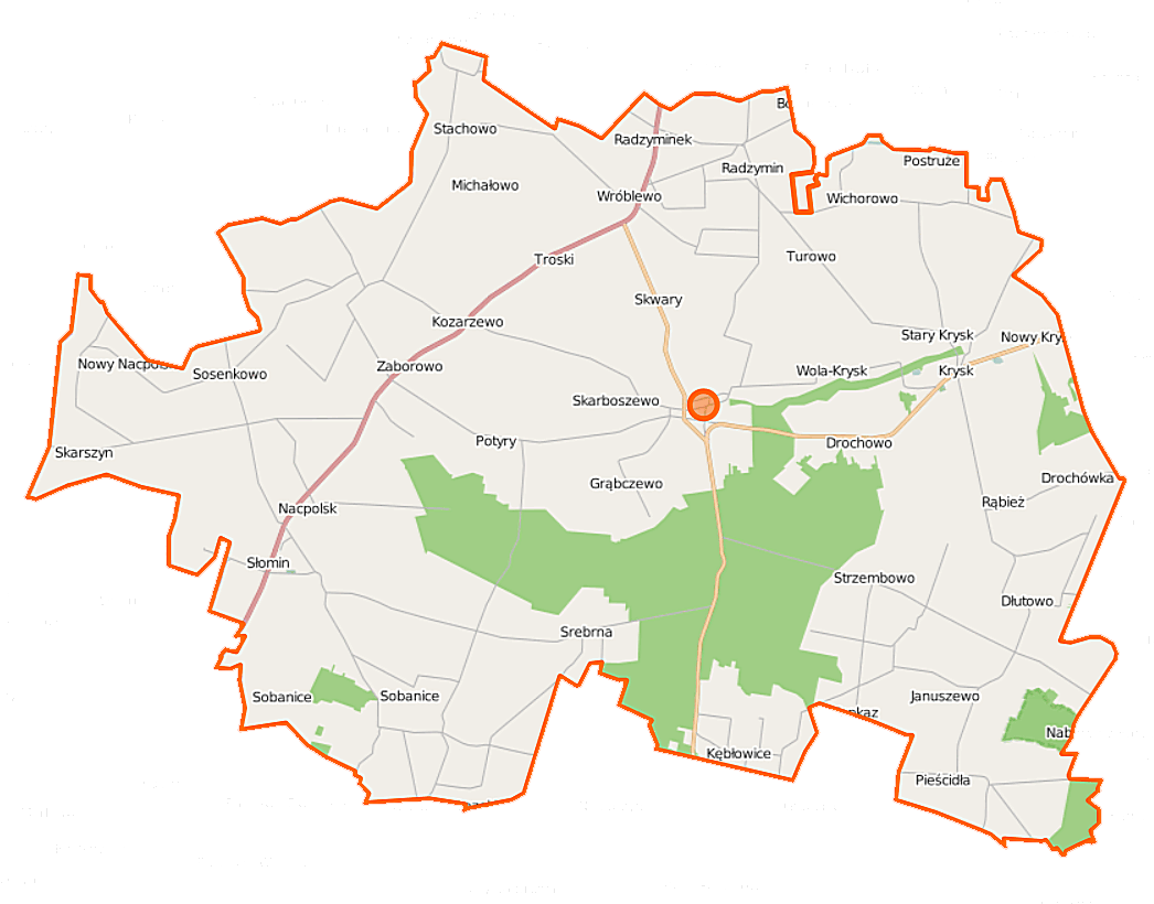 Map of Gmina Naruszewo, PolandThis map of Naruszewo (gmina) was created from OpenStreetMap project data, collected by the community. This map may be incomplete, and may contain errors. Don't rely solely on it for navigation.